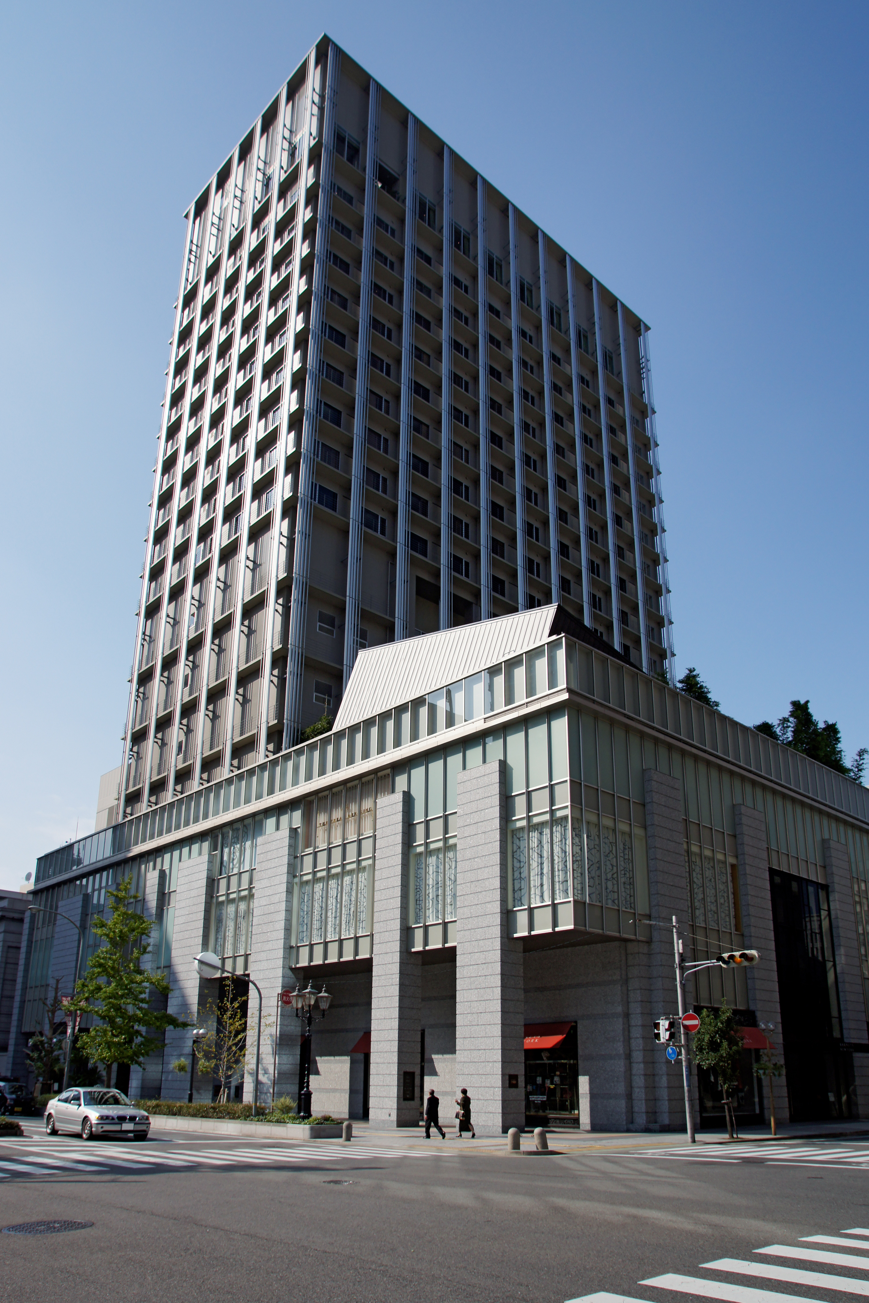 The Old Settlement Hall of No.25, Kobe in Kobe, Hyogo prefecture, Japan